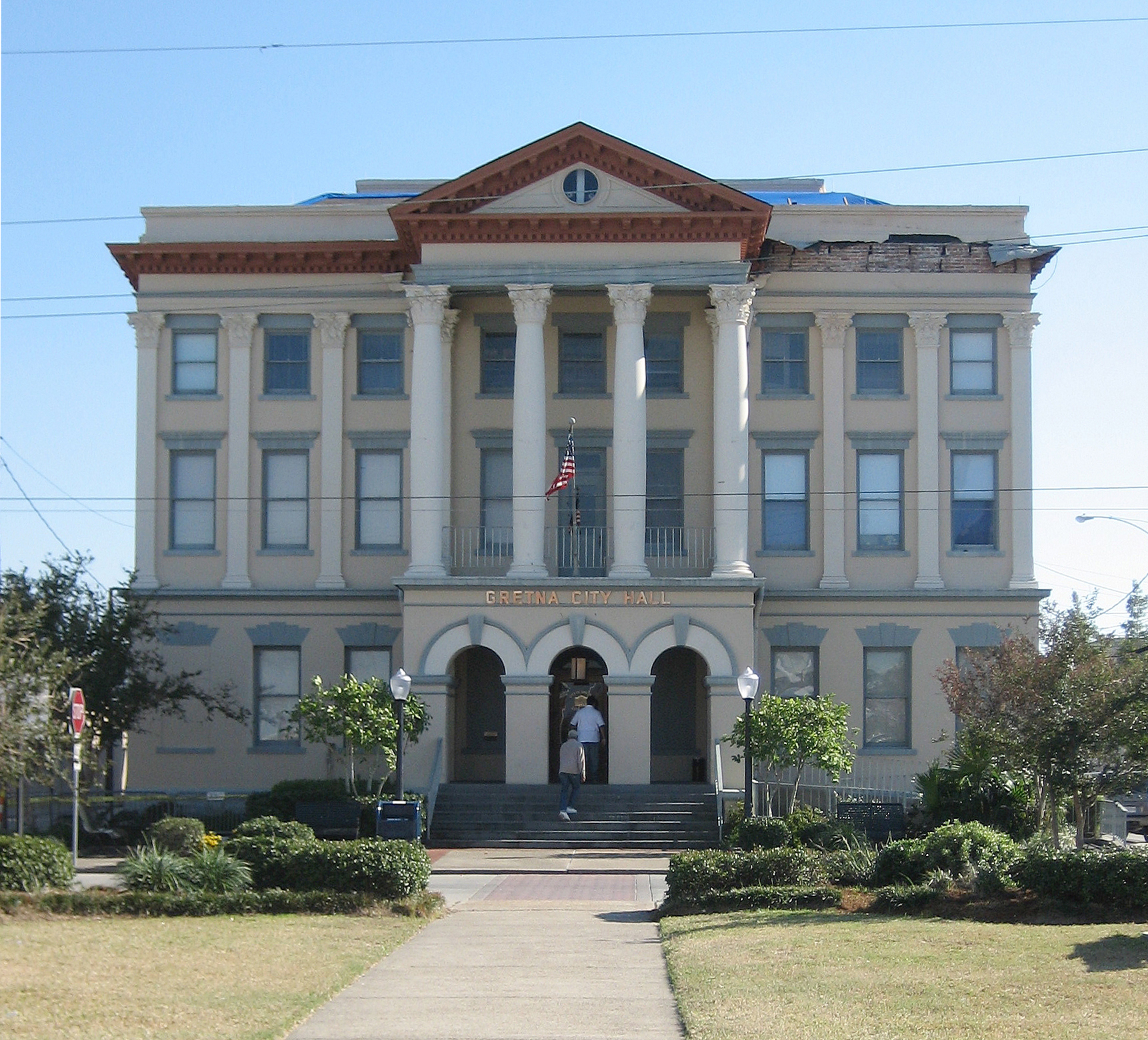 City Hall, Gretna, Louisiana. Note damage to fascade from Hurricane Katrina.